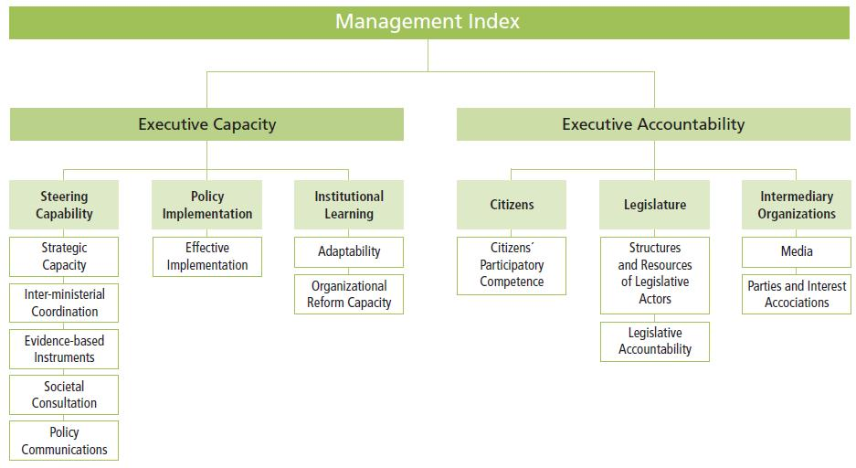 Composition of the Management Index